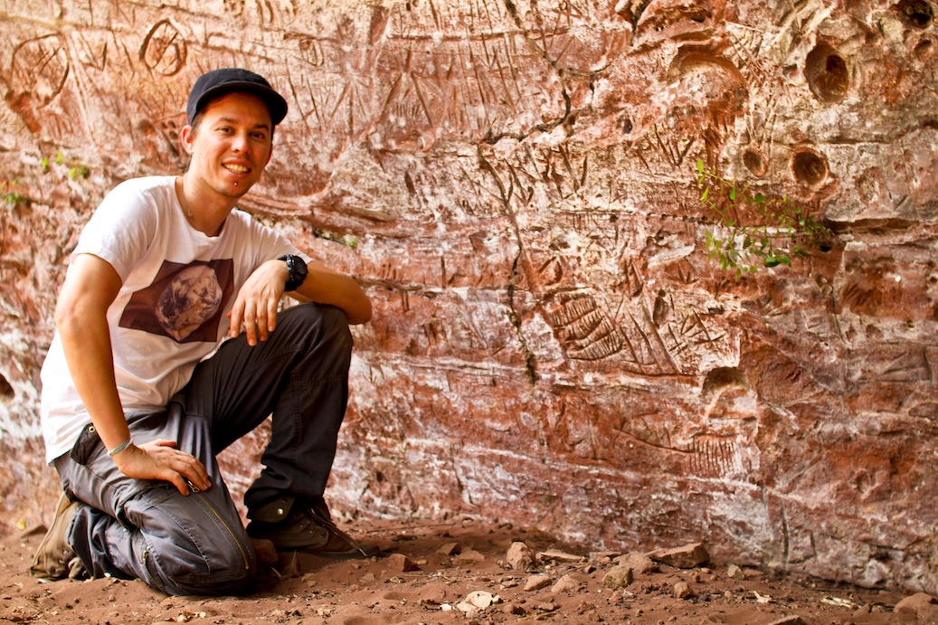 Frank Weaver near rock art wall in Amambay Paraguay